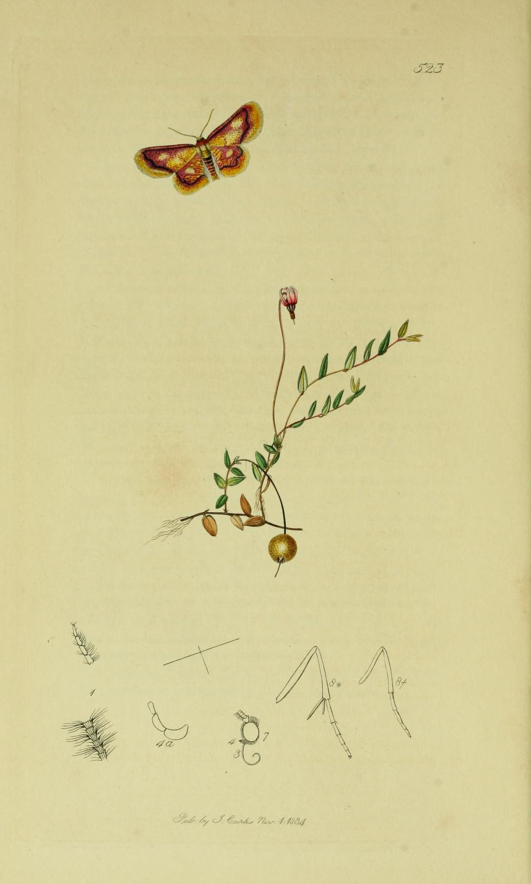 An illustration from British Entomology by John Curtis. Lepidoptera: Hyria auroraria or Idaea muricata (Purple-bordered Gold).